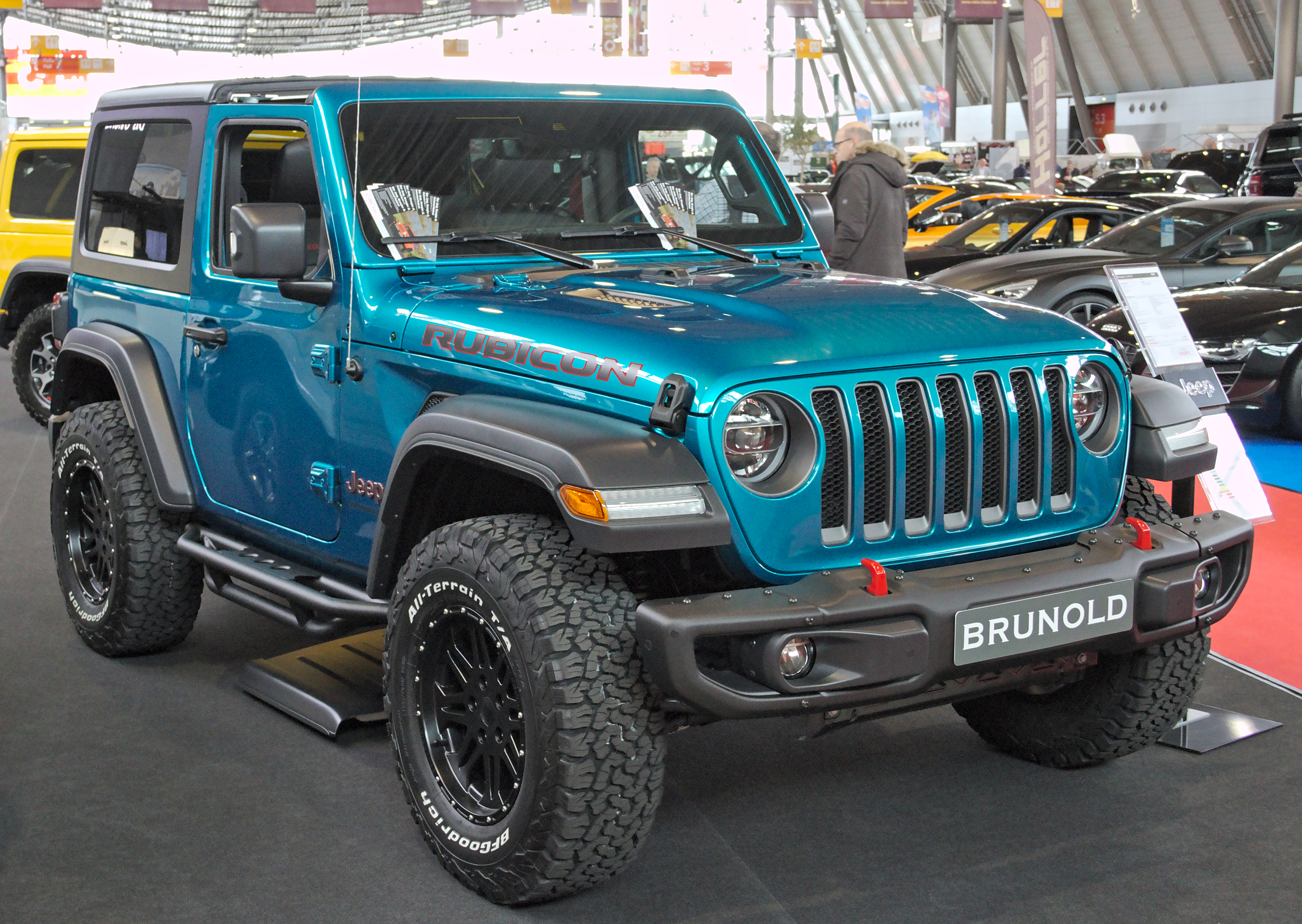 Jeep_Wrangler_(JL) at Retro Classics 2020